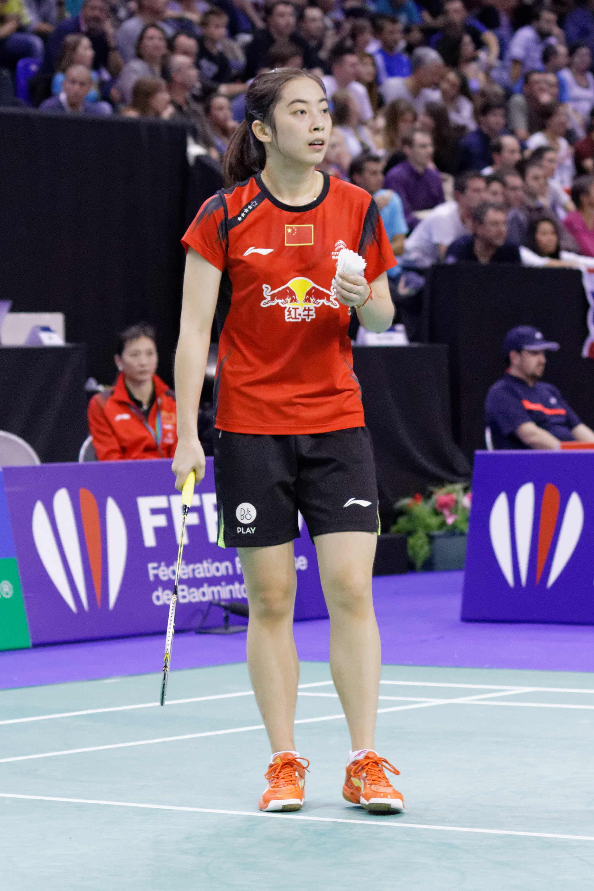 2013 French open. Women's singles quarterfinal. Wang Shixian vs Ratchanok Intanon.